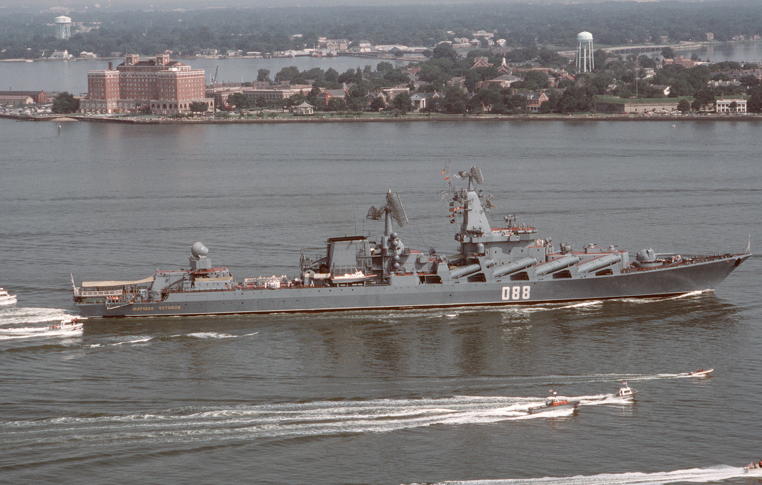 The Soviet Slava Class Guided Missile Cruiser MARSHAL USTINOV (CG 088) passes by Fort Monroe as it leaves Hampton Roads. The MARSHAL USTINOV, the Guided Missile Destroyer OTLICHNYY (DDG 434) and the Replenishment Oiler GENRIKH GASANOV are ending a five-day goodwill visit to Naval Base, Norfolk, Virginia (VA). The visit was the first to an American military port by ships of the Soviet navy.